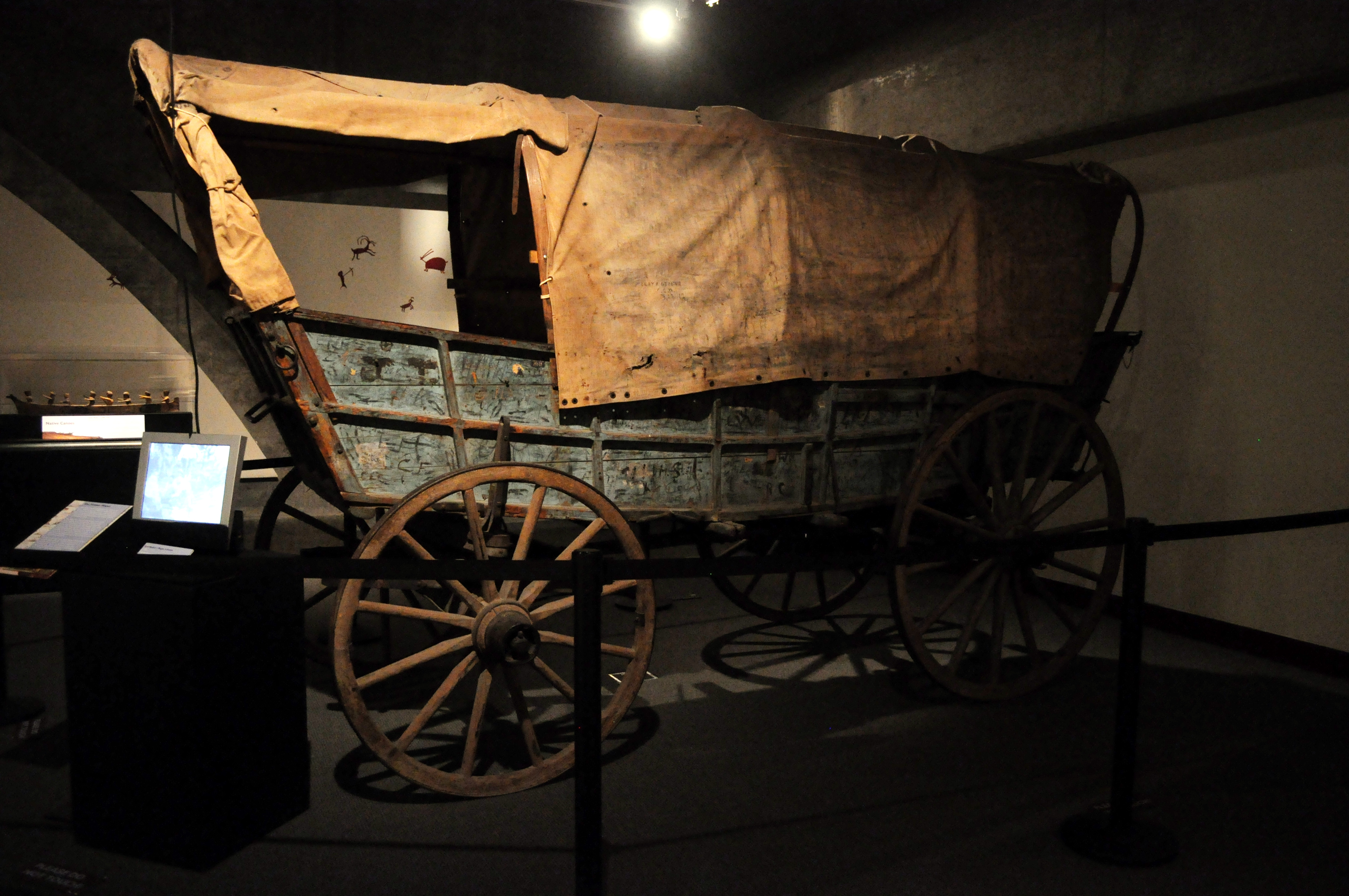 Ezra Meeker wagon, Washington State History Museum item 1919.152.1. Meeker, who migrated to the western U.S. via the Oregon Trail, had this replica covered wagon made in 1906 for a well-publicized recreation of the journey.